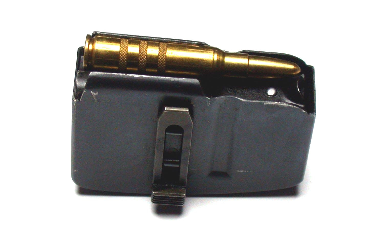 Magazine Swiss Schmidt-Rubin K 31